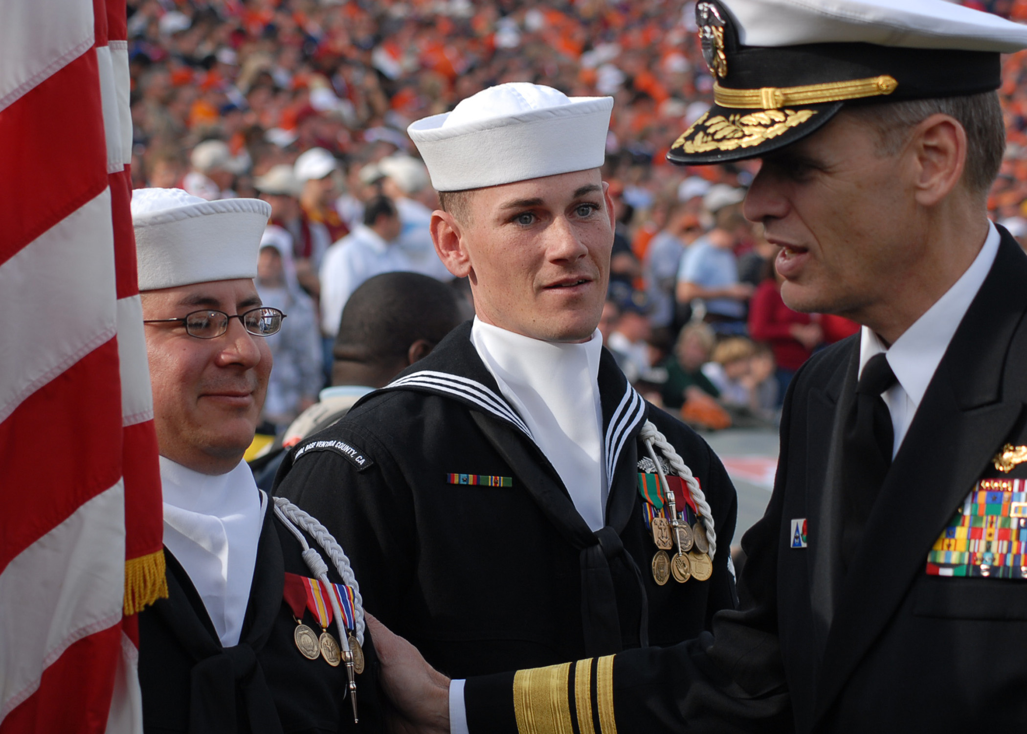 Vice Adm. Thomas J. Kilcline, Jr., Commander, Naval Air Forces individually thanked the Sailors of the Naval Base Ventura County Honor Guard for parading the colors during the national anthem at the 2008 Rose Bowl game Jan. 1. U.S. Navy photo by Mass Communication Specialist 3rd Class Eva-Marie Ramsaran (Released)